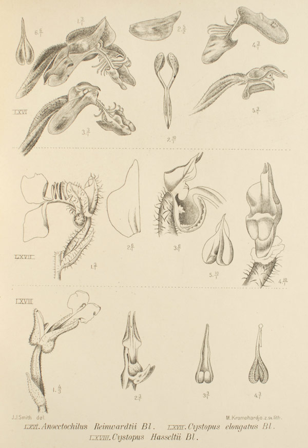 Anoectochilus reinwardtii